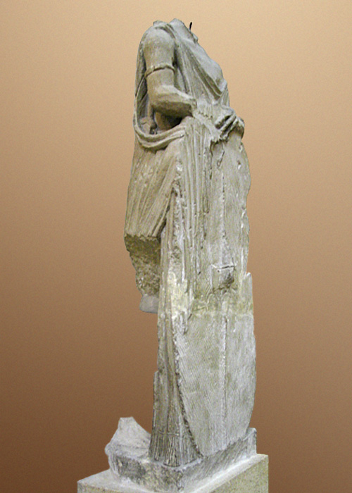 Statue of a Gaul warrior wearing a sagum and holding a Gaul shield (side view) ; Era : 1st century BC ; Found : in Mondragon, Vaucluse, France ; Location : Museum Calvet, Avignon, France.